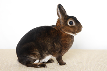 dwarf rex